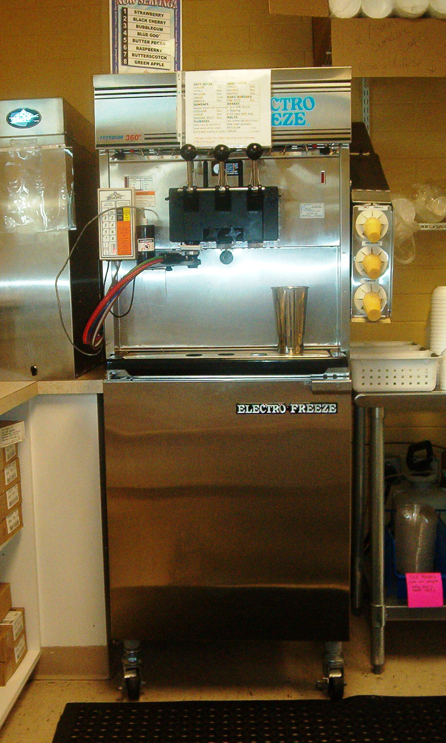 A picture I took at our ice cream store, of an Electro Freeze 30T-RMT